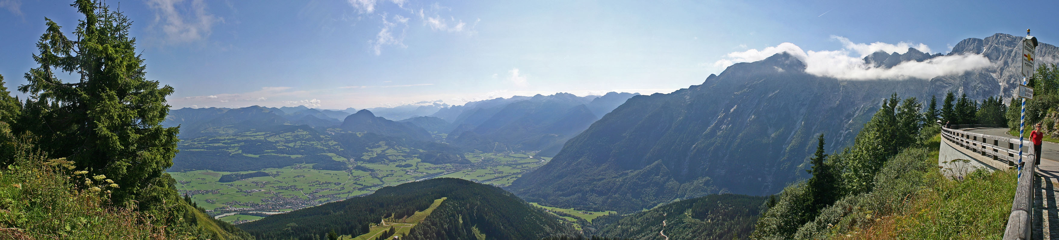 panoramic view from the Roßfeldhöhenringstraße to the south east